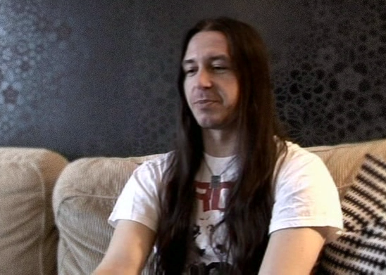 Opeth's keyboard player, Per Wiberg.